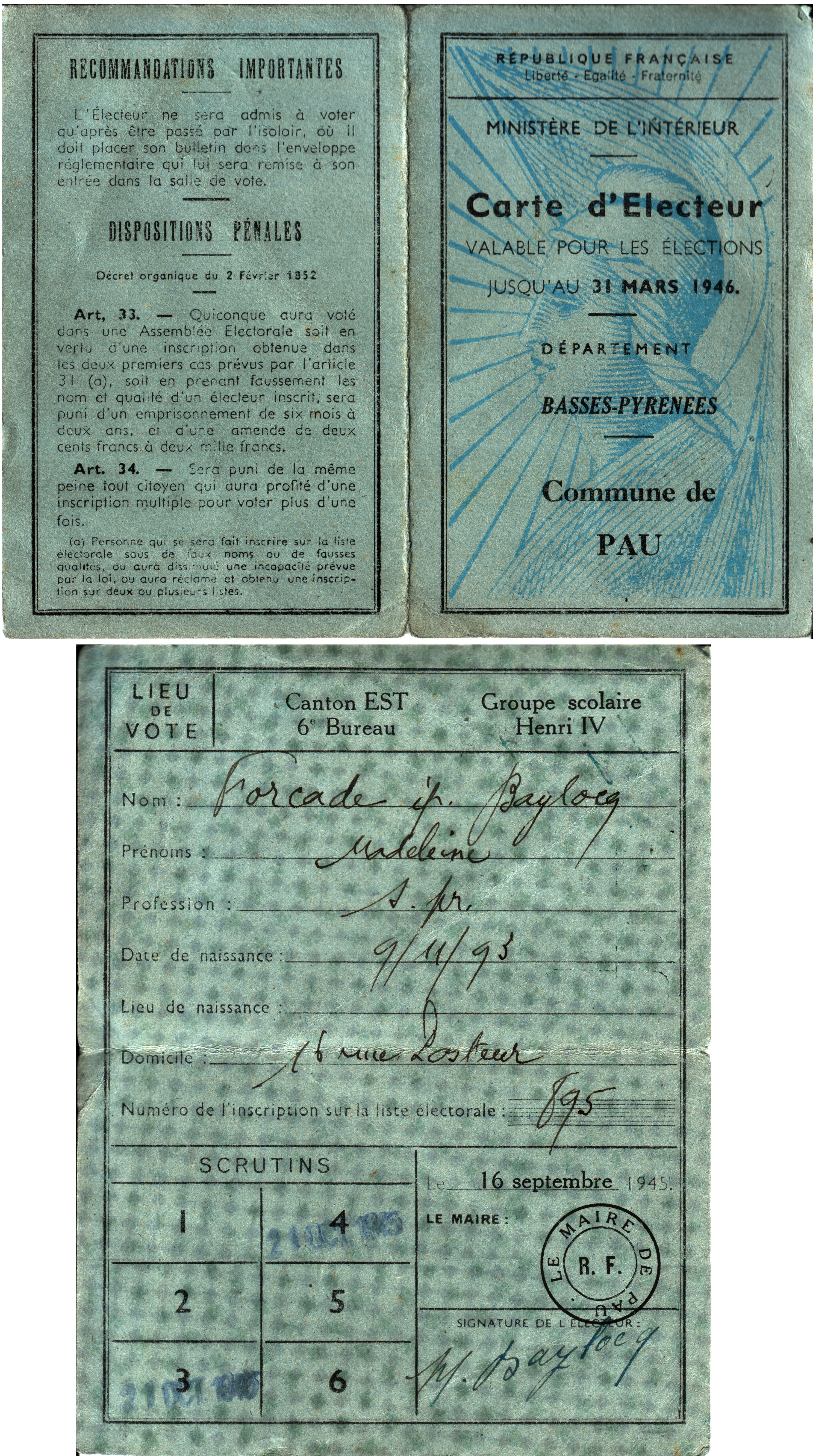 Scan of an old French elector card of september 1945. The second women's suffrage in France.